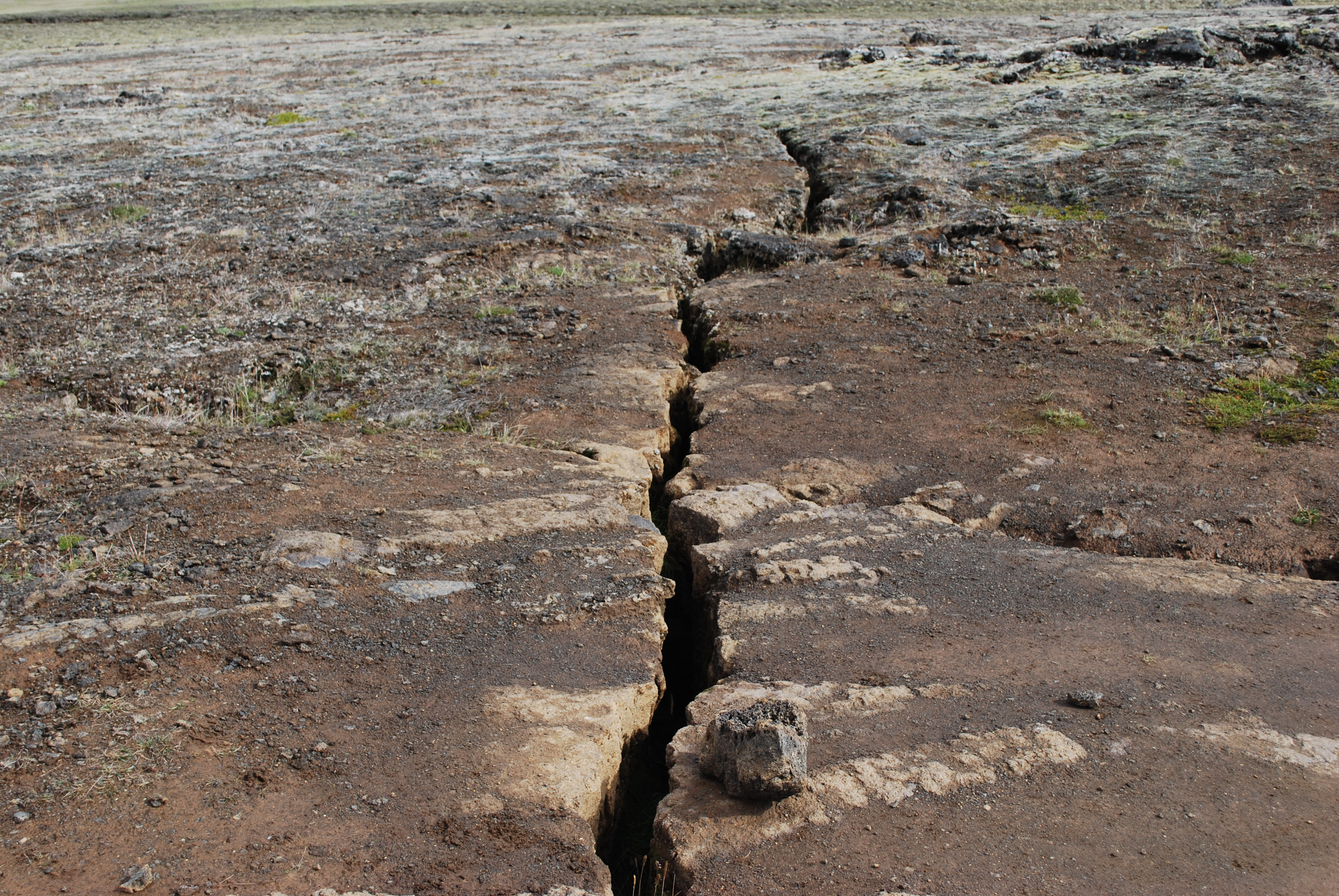 Cracks in earth crust as a result of rifting pressing eastern and western part of Iceland apart in Northern Rift Zone, Iceland